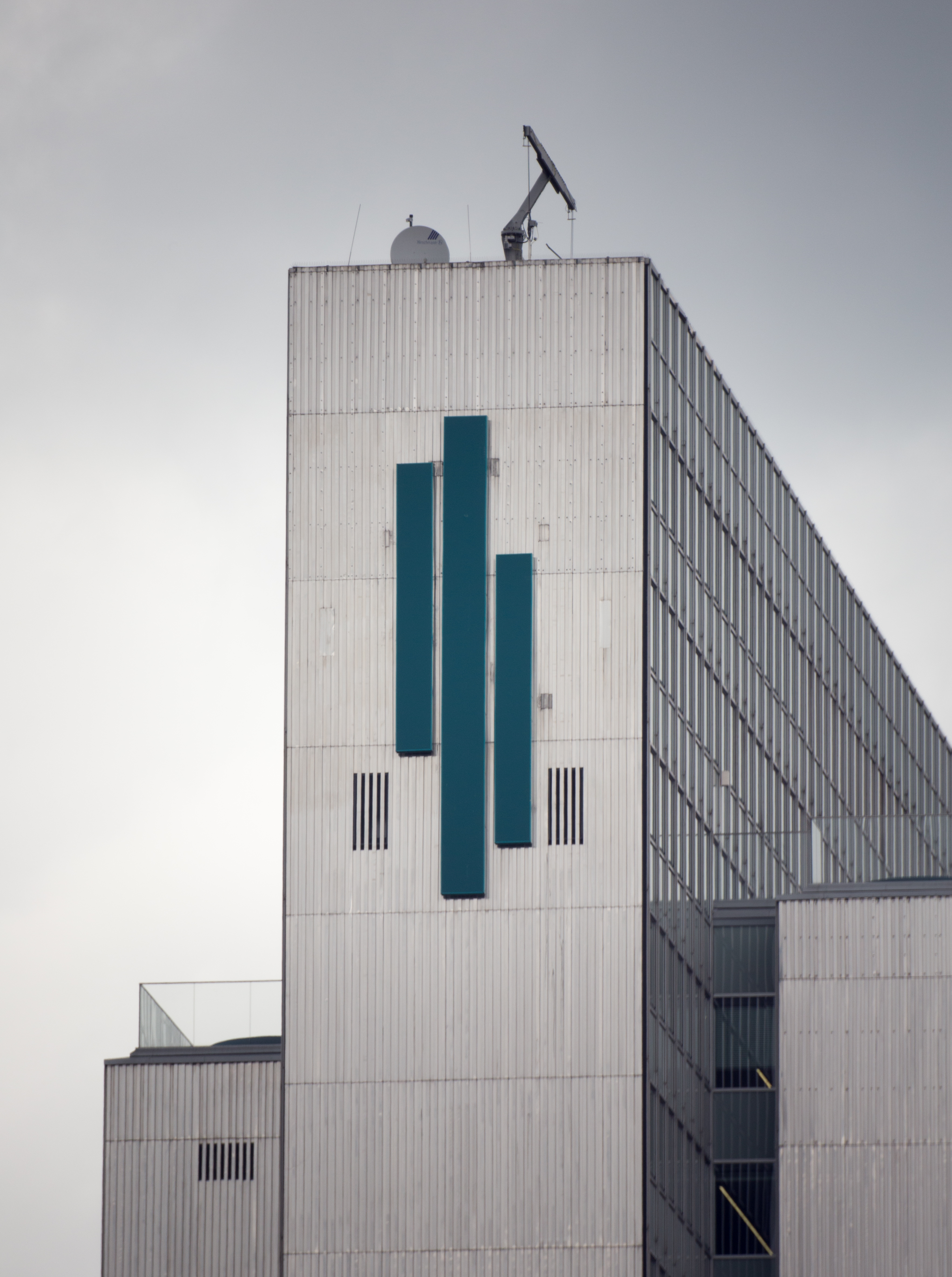 Dreischeibenhaus new Logo, taken with Samyang/Wallimex 500mm f/8.0